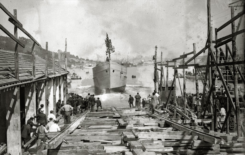 Shipyard in Pasaia, Gipuzkoa, Basque Country (1920)